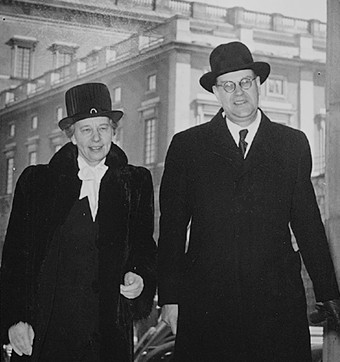 Karin Kock together with Tage Erlander 1947.